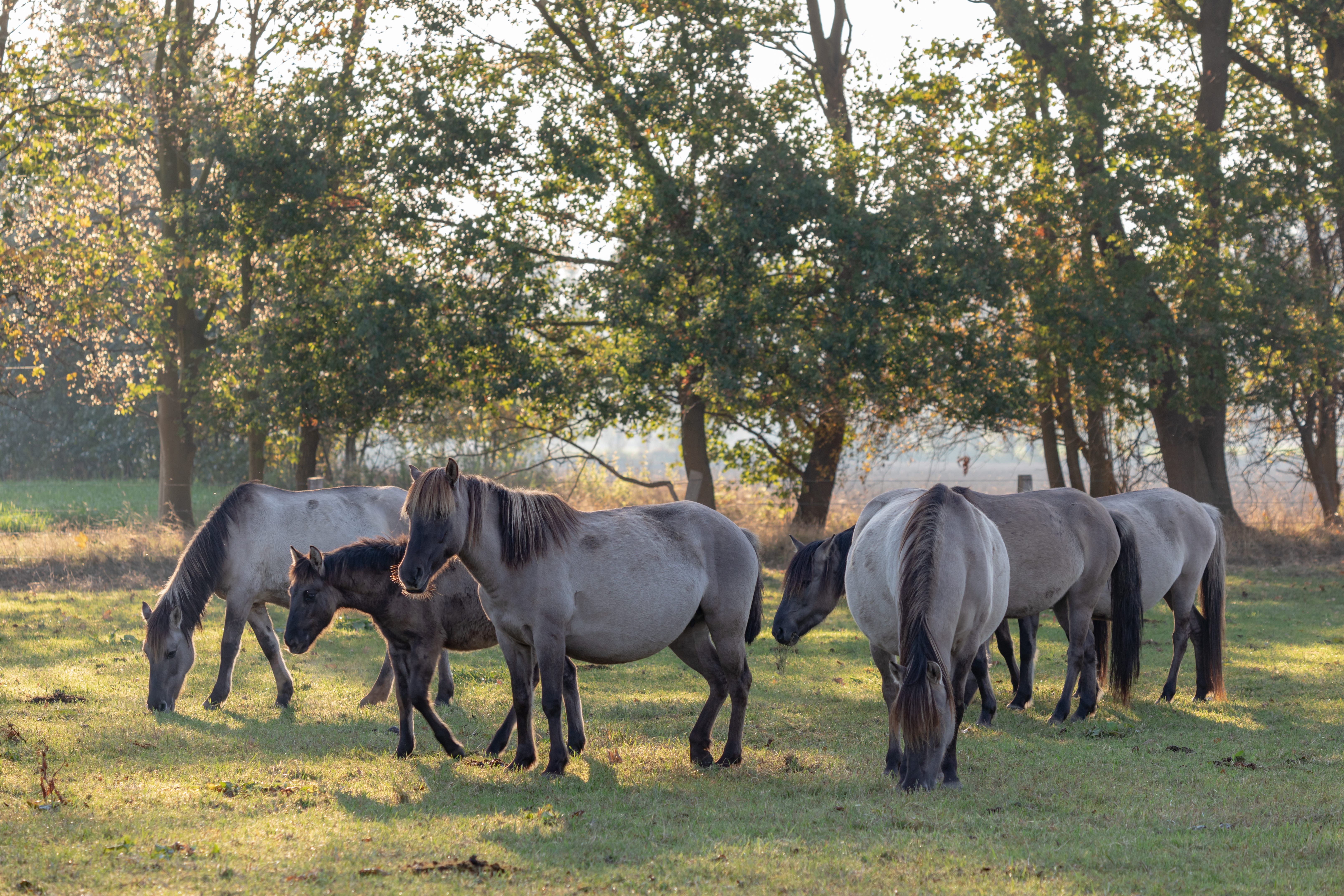 Dülmen ponies in the Merfelder Bruch bei Merfeld, Dülmen, North Rhine-Westphalia, Germany